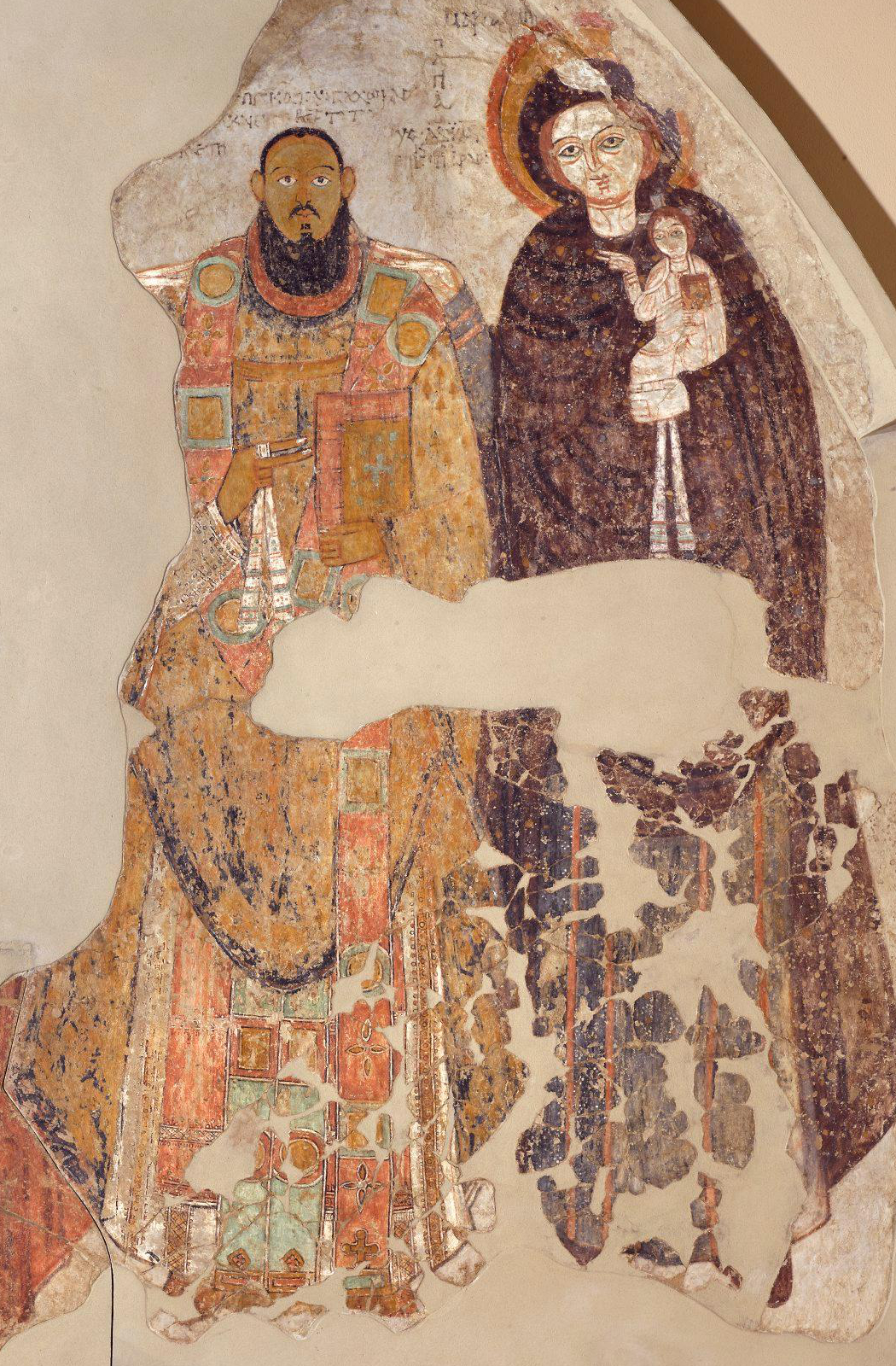 Based on